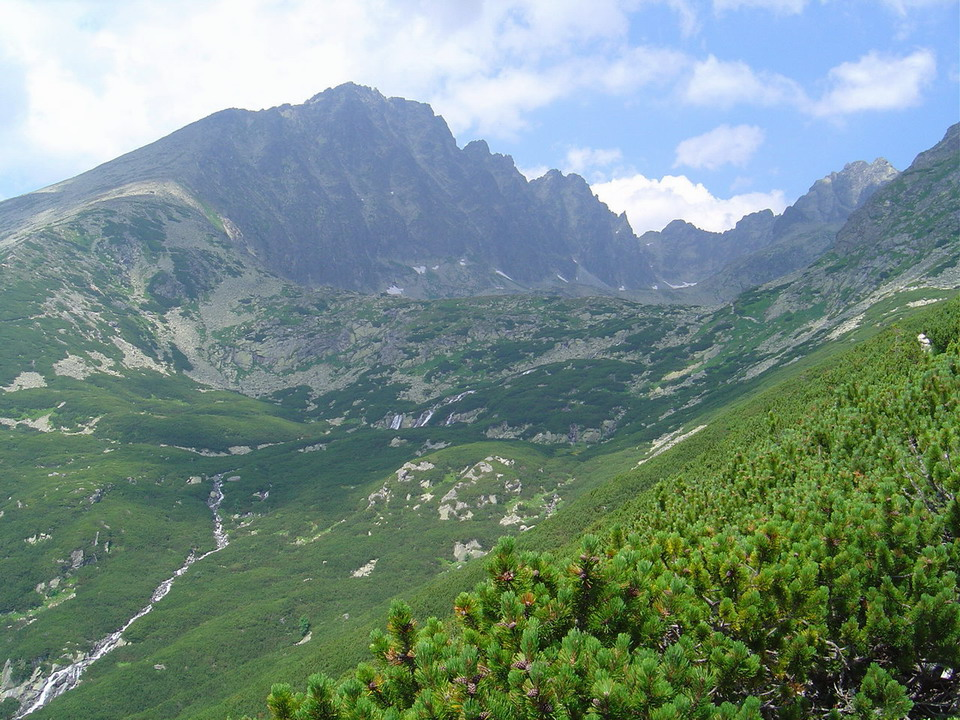 Koncista (peak), Batizovska dolina (valley), and Batizovske vodopady (waterfall) from below Suchy vrch — High Tatra Mountains, Tatra National Park, northern Slovakia.